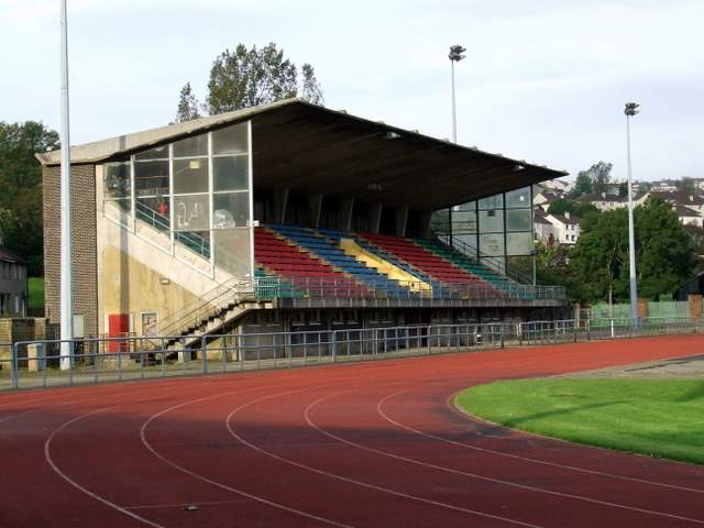 Ravenscraig Stadium. The grandstand. See also 996777.